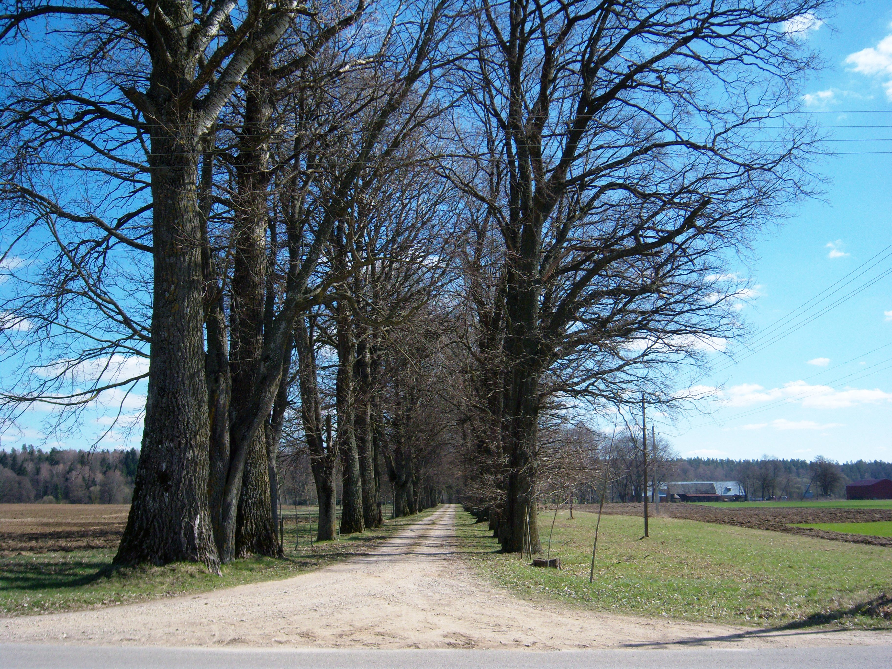 Siponys, trees alley to former manor, Birštonas Municipality, Lithuania